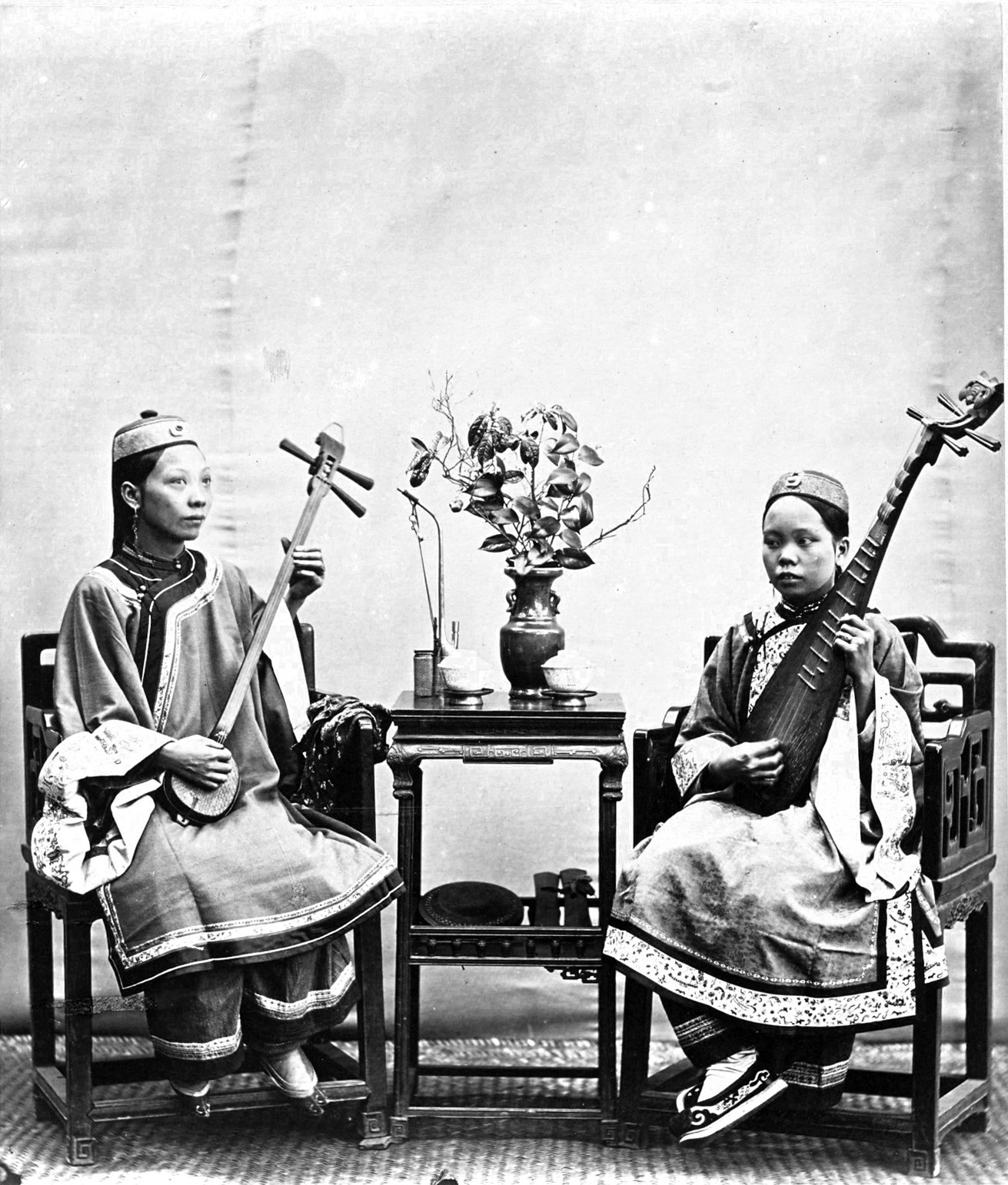 Photograph in From Afong, Photographer.